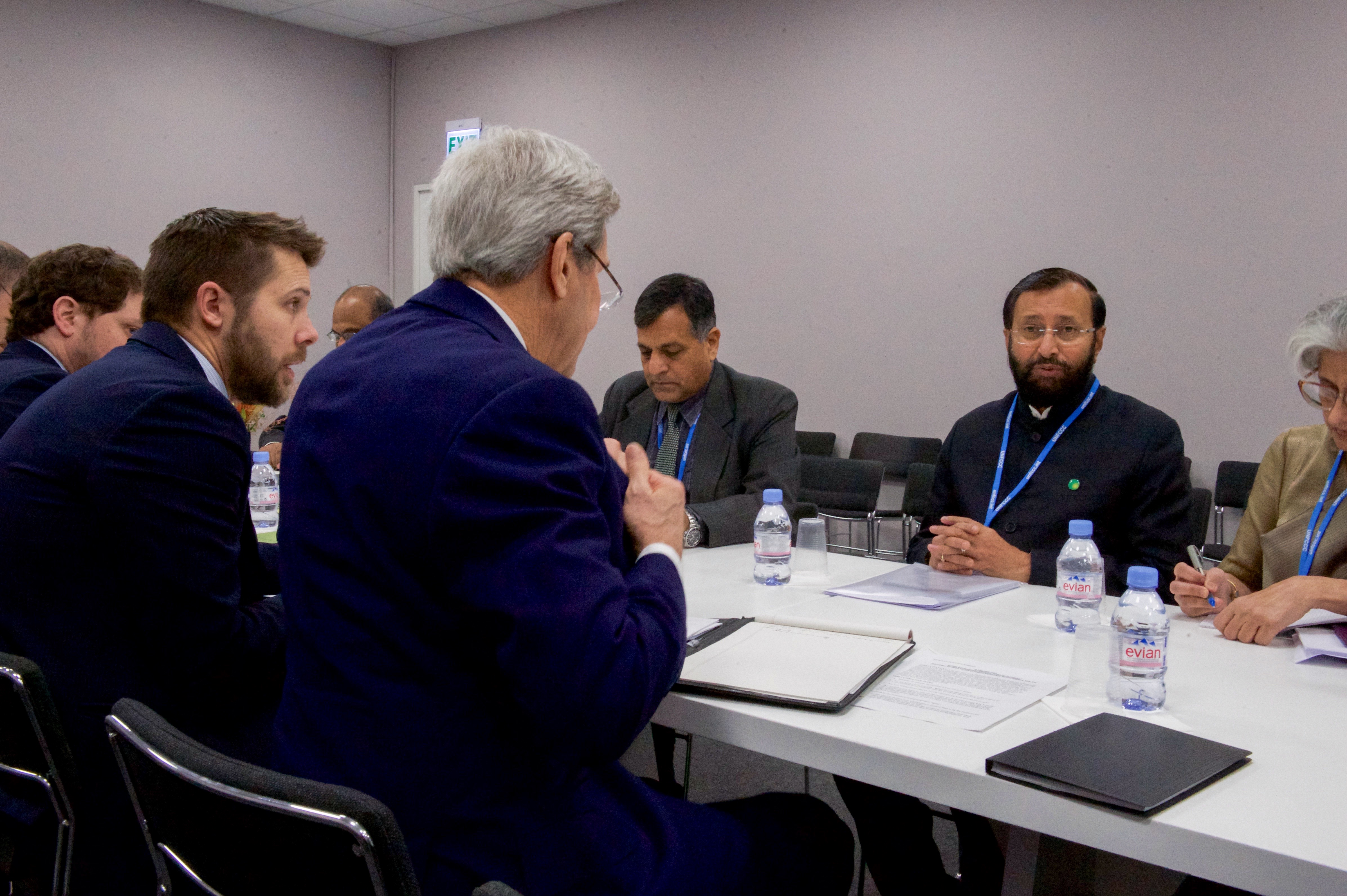 U.S. Secretary of State John Kerry and his team meet with Prakash Javadekar, Indian Minister of Environment, on the margins of the COP21 climate change summit in Paris, France, on December 10, 2015. [State Department photo/ Public Domain]